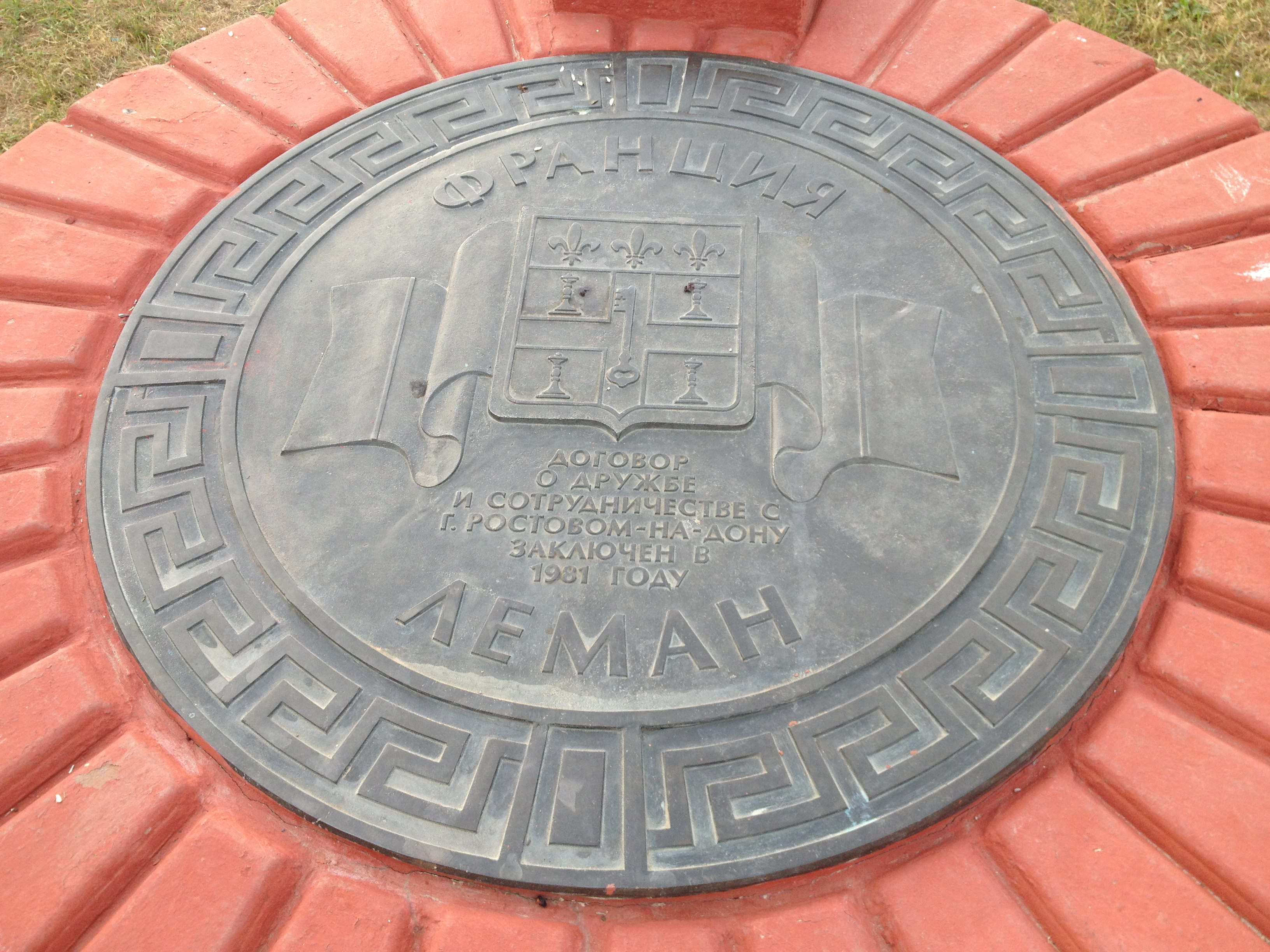 friendship with Le Mans at Rostov-sur-le-Don